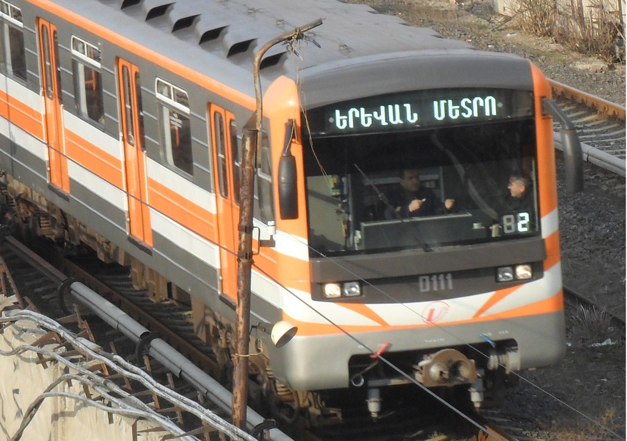 New carriage Yerevan Metro